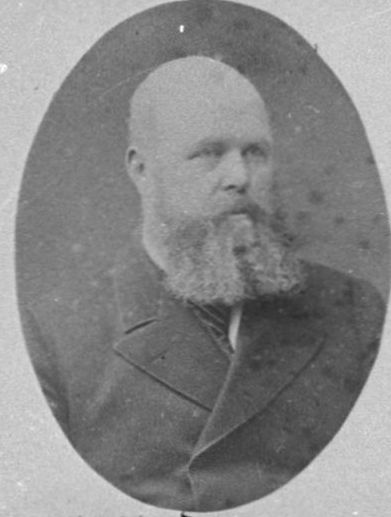 Portrait taken from montage depicting members of the 1882 House of Representatives.